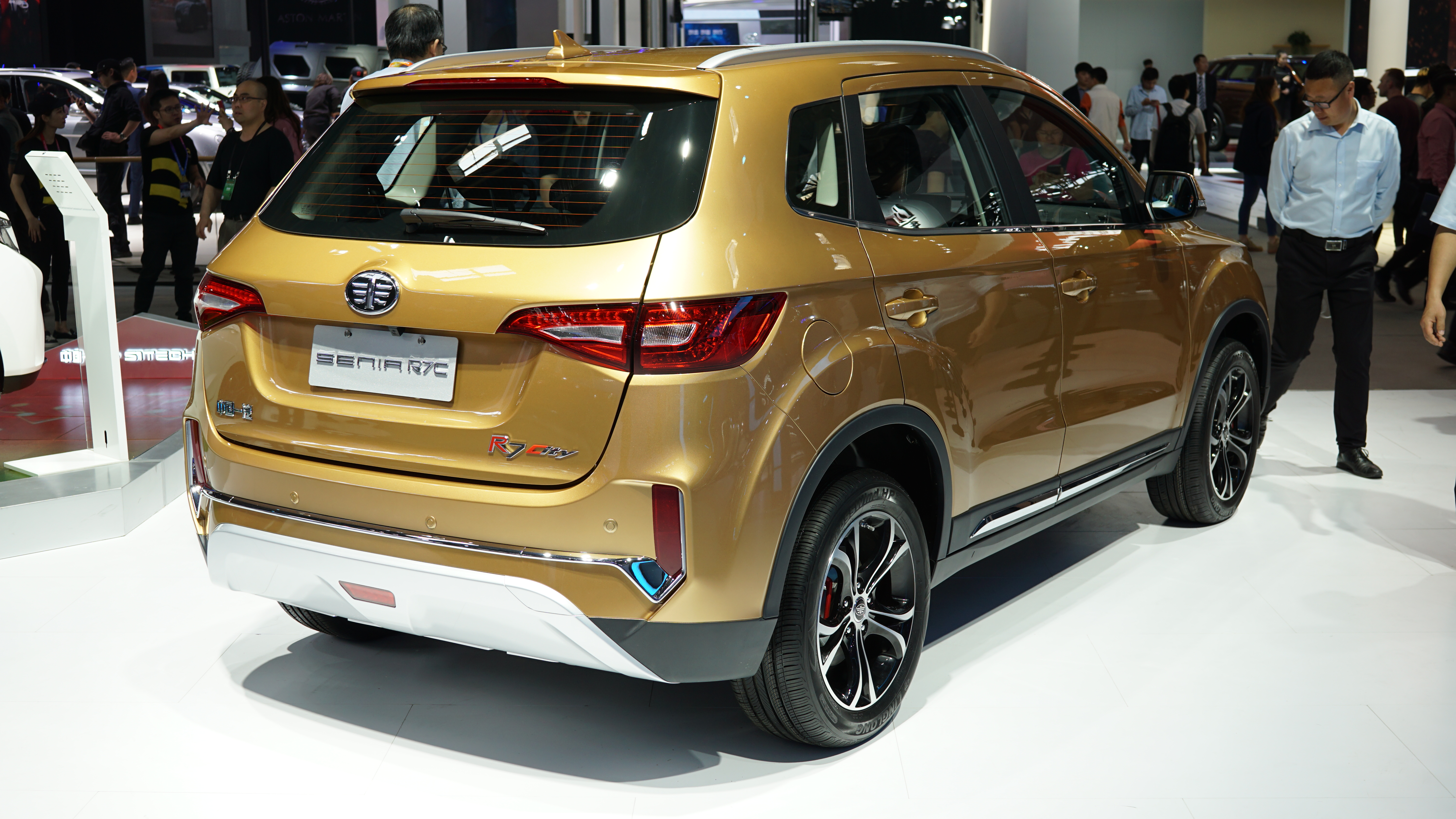 Rear view of the Senia R7C, at the Auto China 2018 FAW booth.